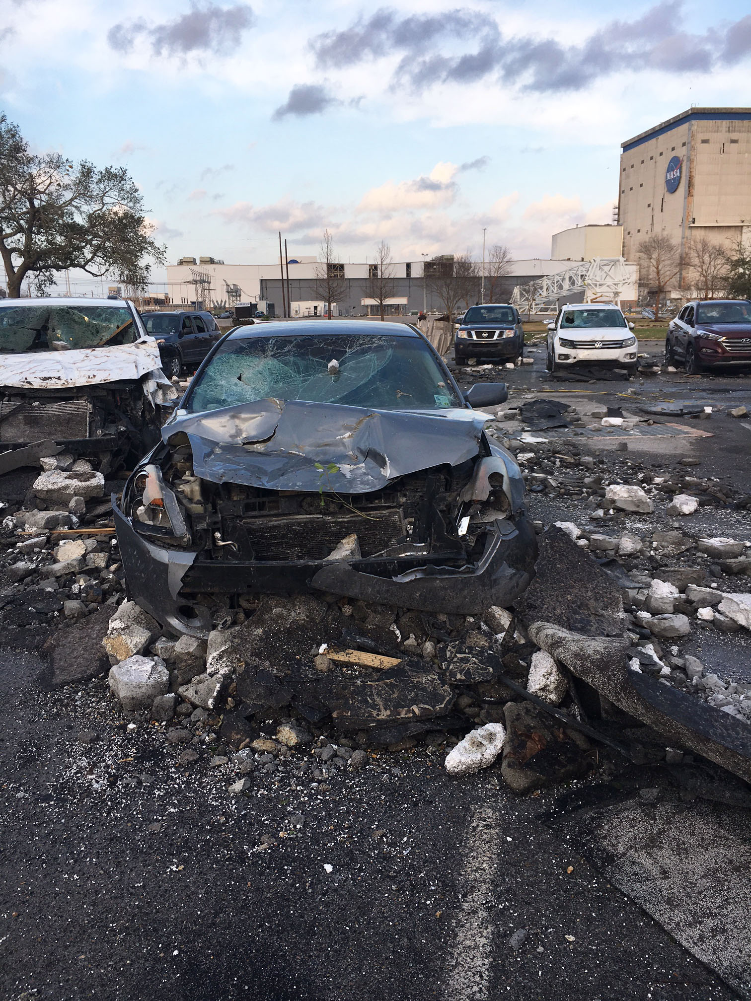 Tornado damage at the National Finance Center on Tuesday, Feb. 8, 2017 in New Orleans, LA. USDA photo by Mike Clanton.